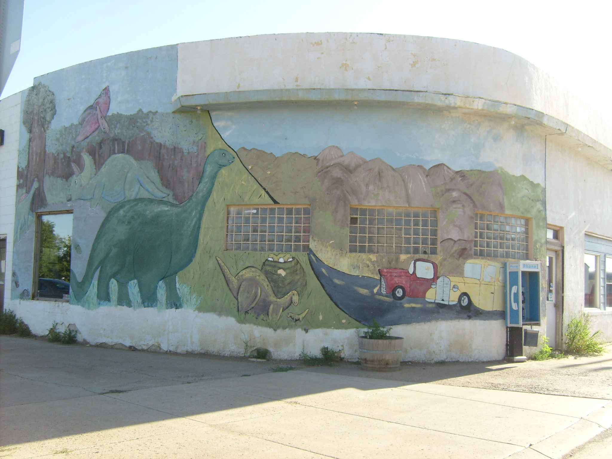 Jordan MT Main Street Intersection